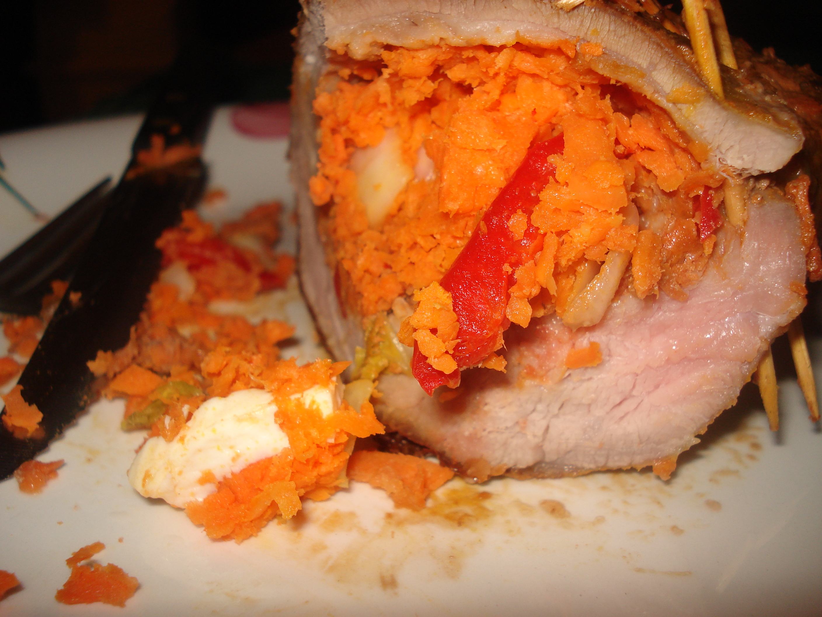 Matambre a la parrilla.